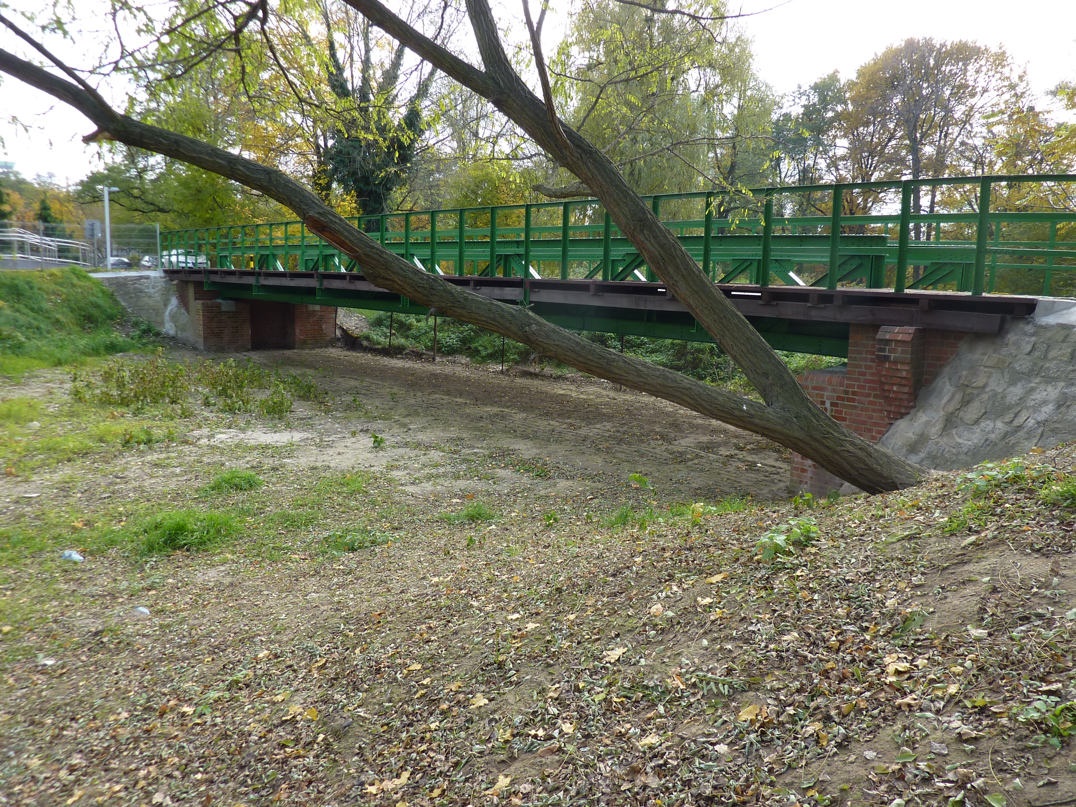 settlement Zacisze, quarter of Wrocław (Poland): relic of the Odra River called "Black Water" near Wojciecha z Brudzewa street: unnamed bridge